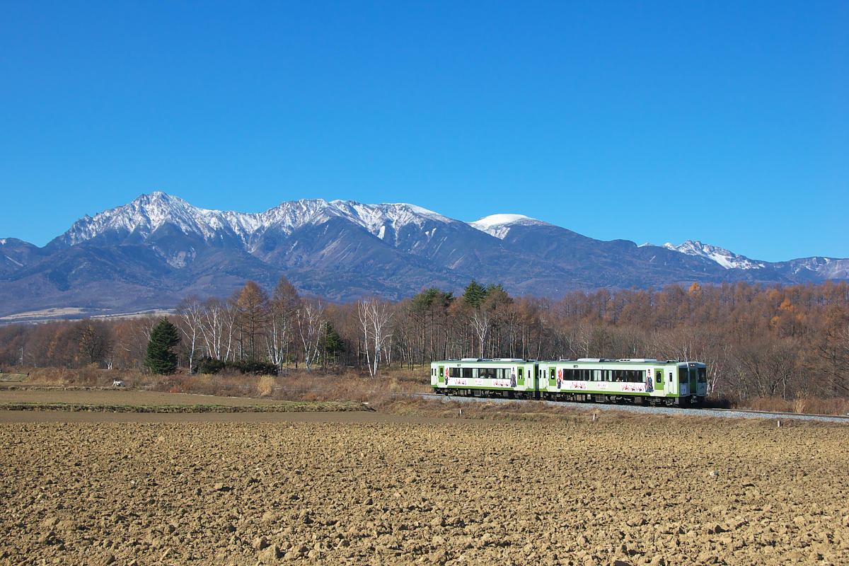 JR East Kiha-110 DMU at Koumi line (Nobeyama - Shinano-Kawakami).